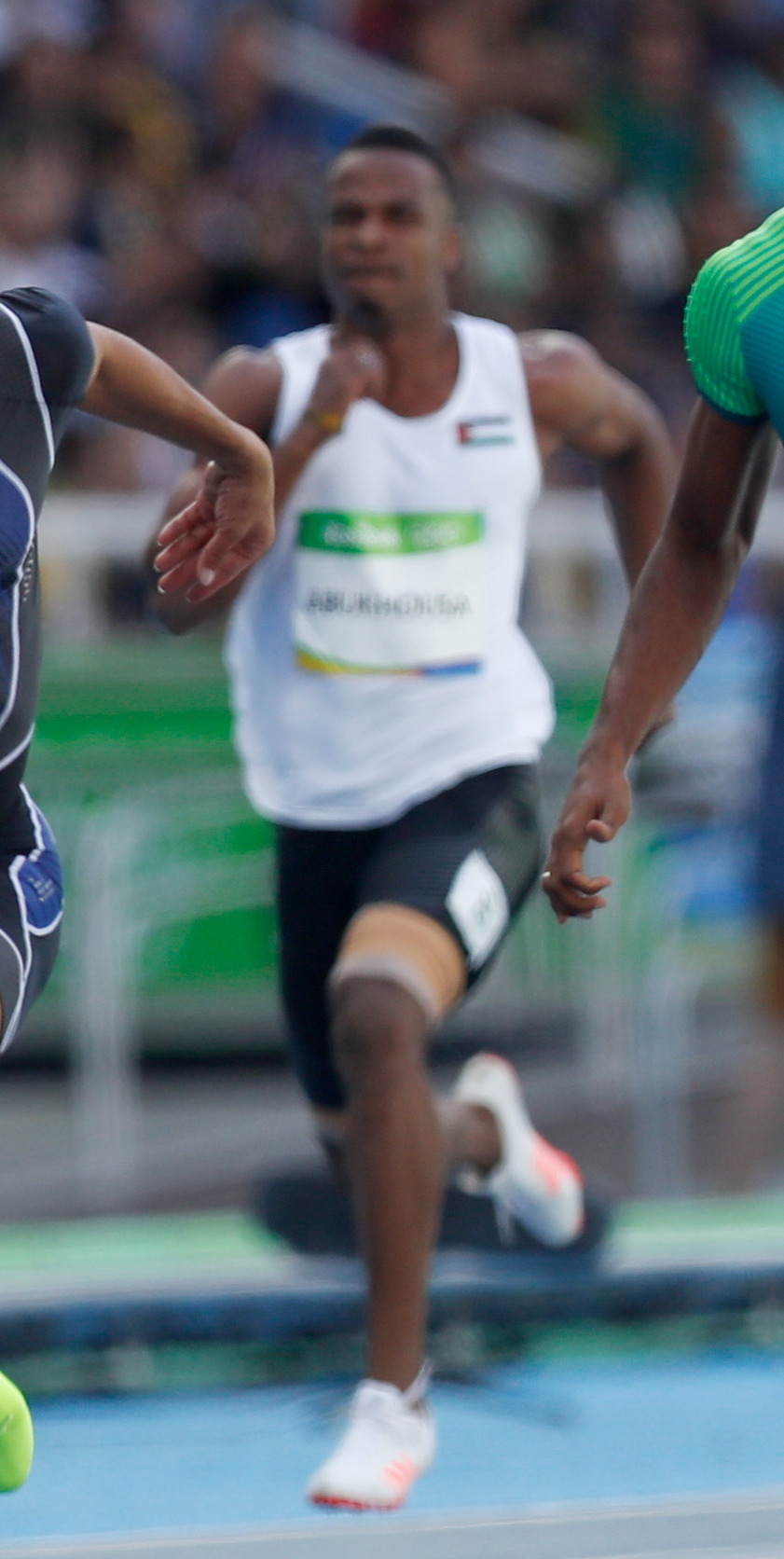 Men's 100 m sprint heats, Rio Olympics